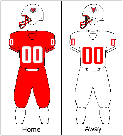 Sports uniform of the Marist Red Foxes. Trademark of the National Collegiate Athletic Association and Marist College.